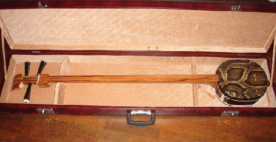 Picture of own Sanxian. By me.